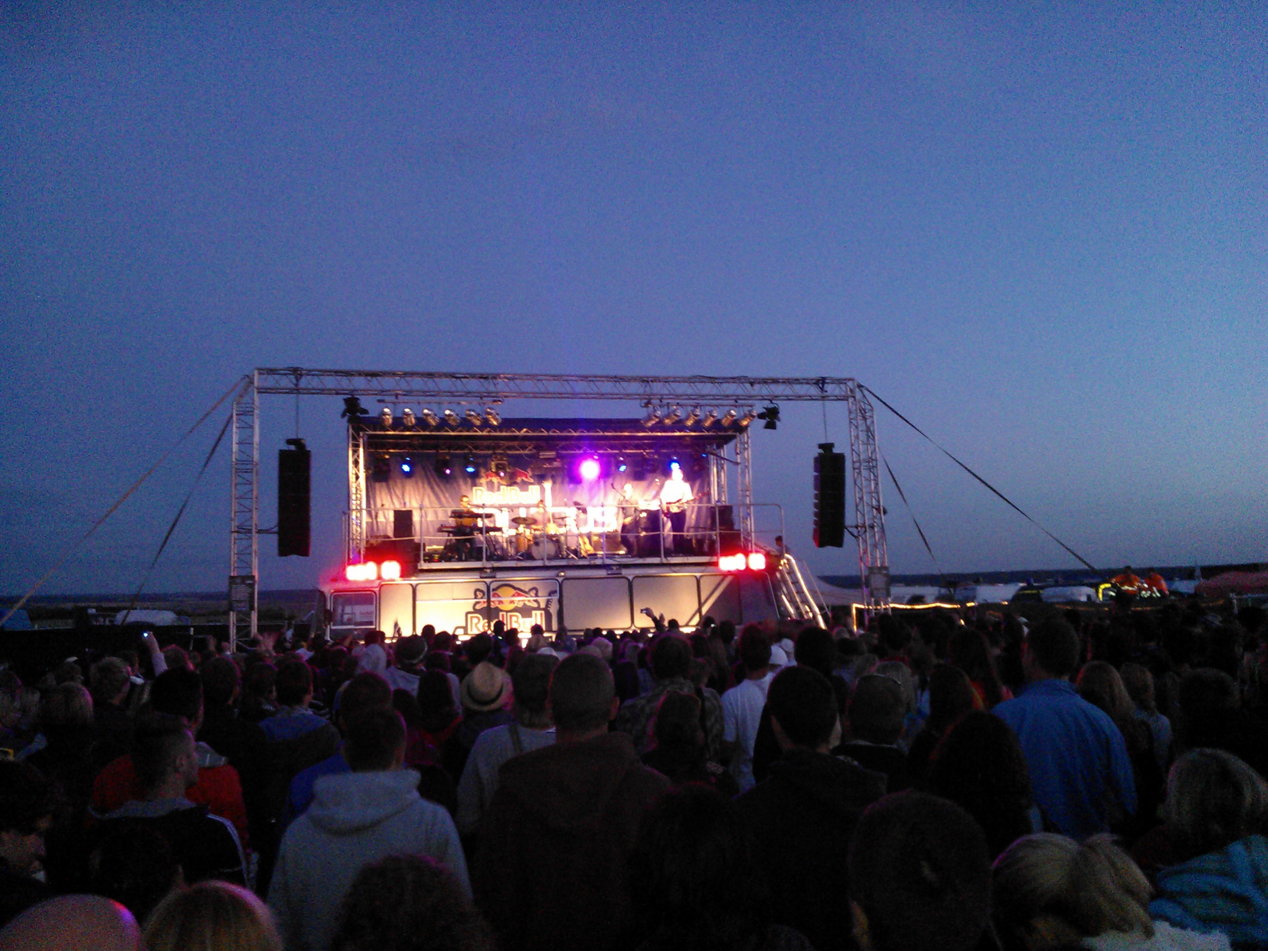 The main Stage in the Open Air Festival Panenský Týnec in the night